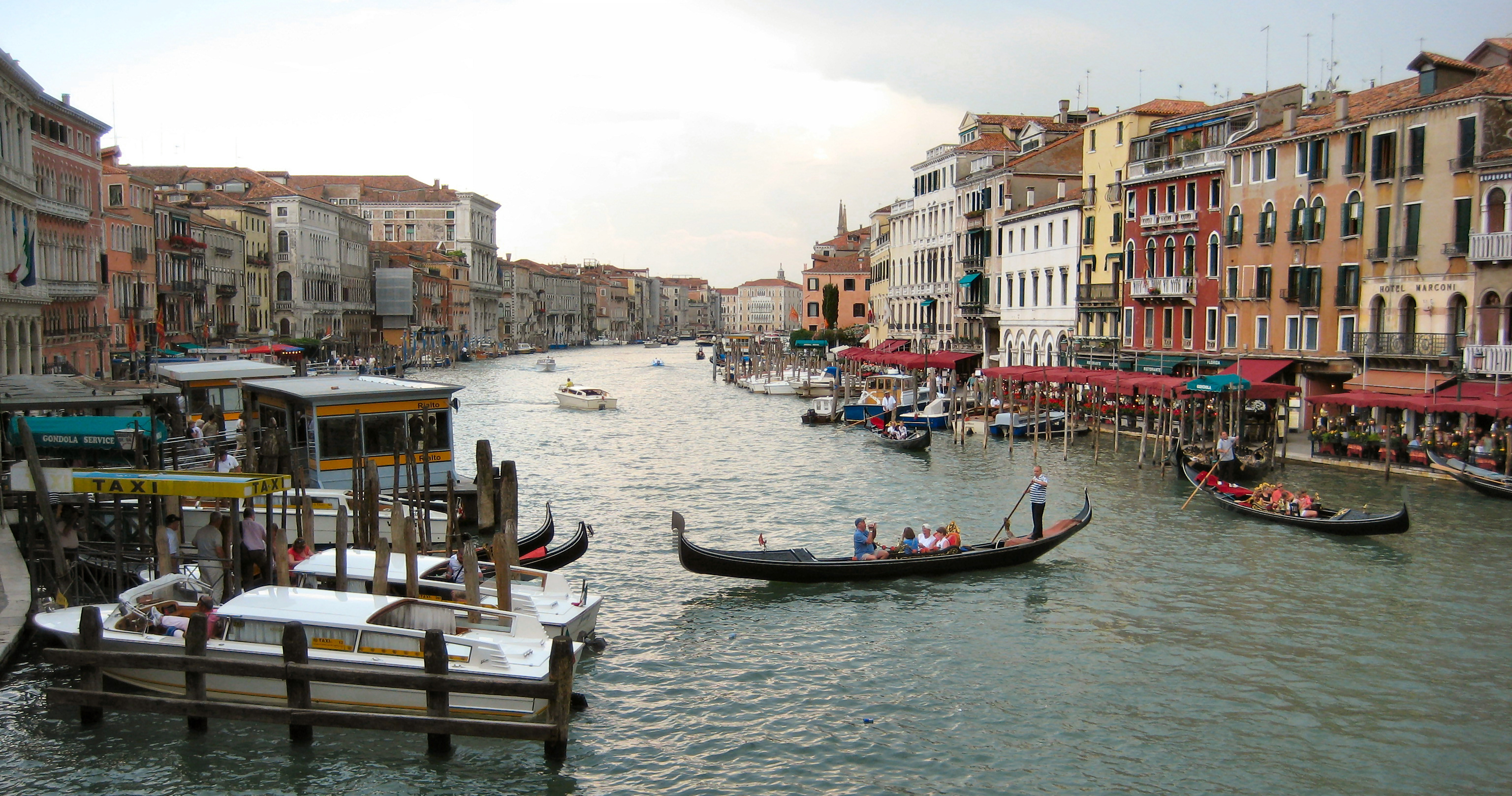 Grand Canal from Rialto Bridge, Venice.